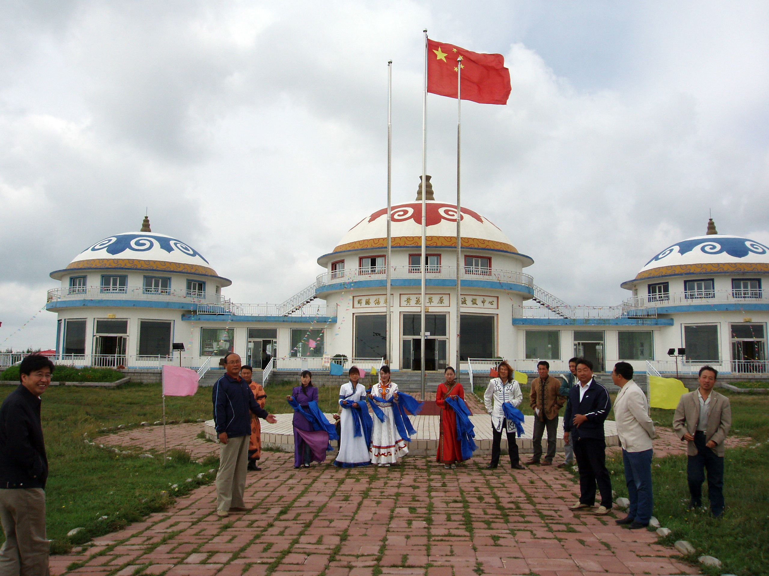 Huanghuagou, a grassland scenic spot near Ulanqab, Inner Mogolia, China